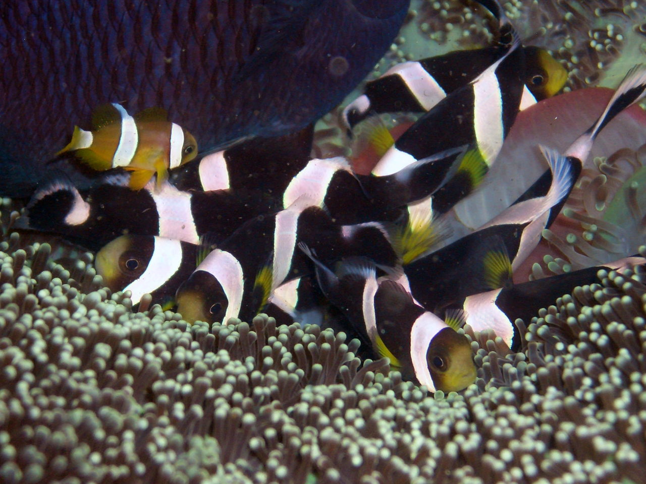 Clark's Anemonefish (Amphiprion clarkii) at Lembeh Strait, North SulawesiBahasa Indonesia: Ikan karang (Amphiprion clarkii) di Selat Lembeh, Sulawesi Utara